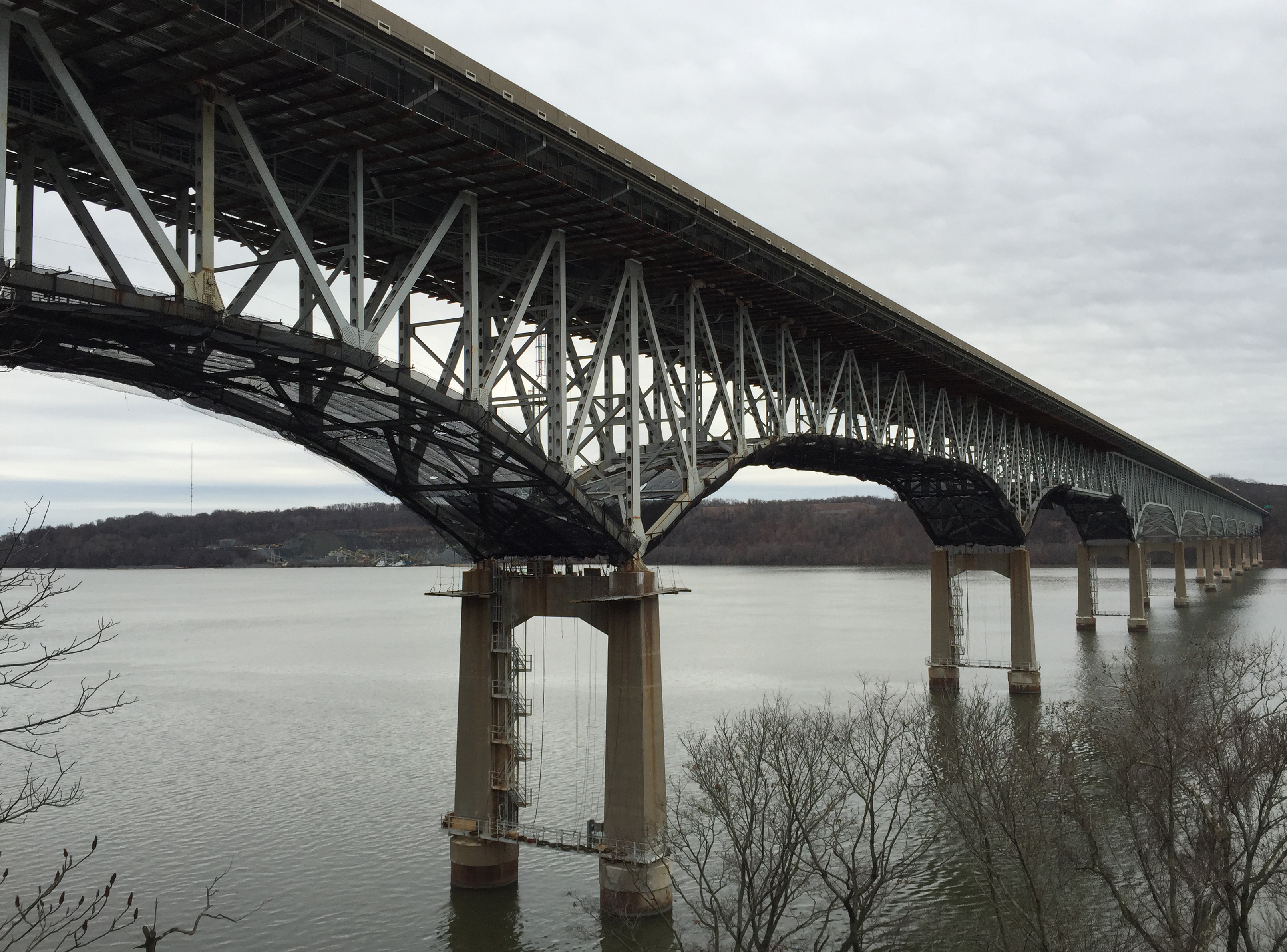 View southwest towards the Millard E. Tydings Memorial Bridge (Interstate 95) connecting Harford and Cecil Counties, Maryland from the east bank of the Susquehanna River